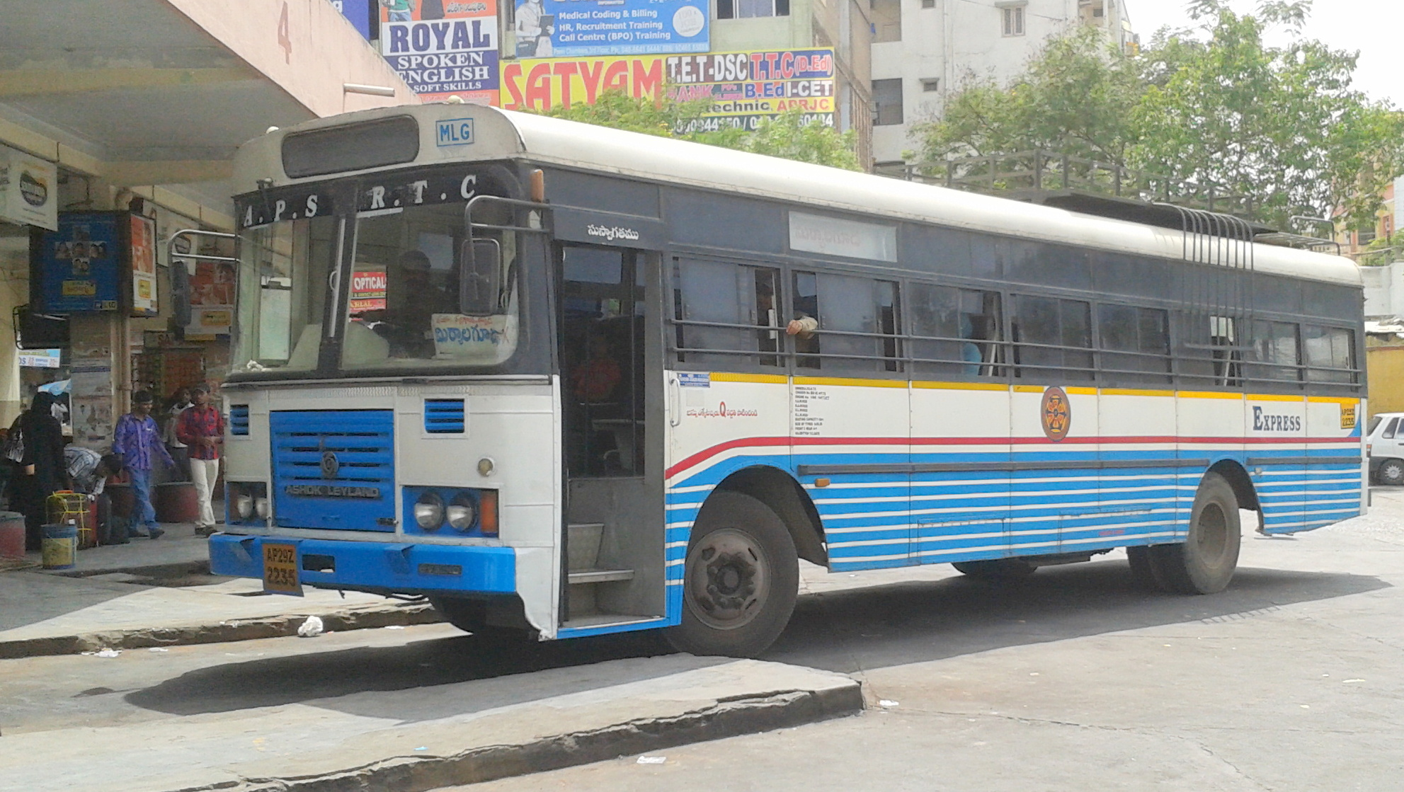 Express, an inter city/inter town service built on TATA 1512C , Ashok Leyland Viking and Eicher chassis by BBU Miyapur . Connecting Villages with district head quarters, major towns and cities , express buses have seats in 3X2 configuration with head rests .